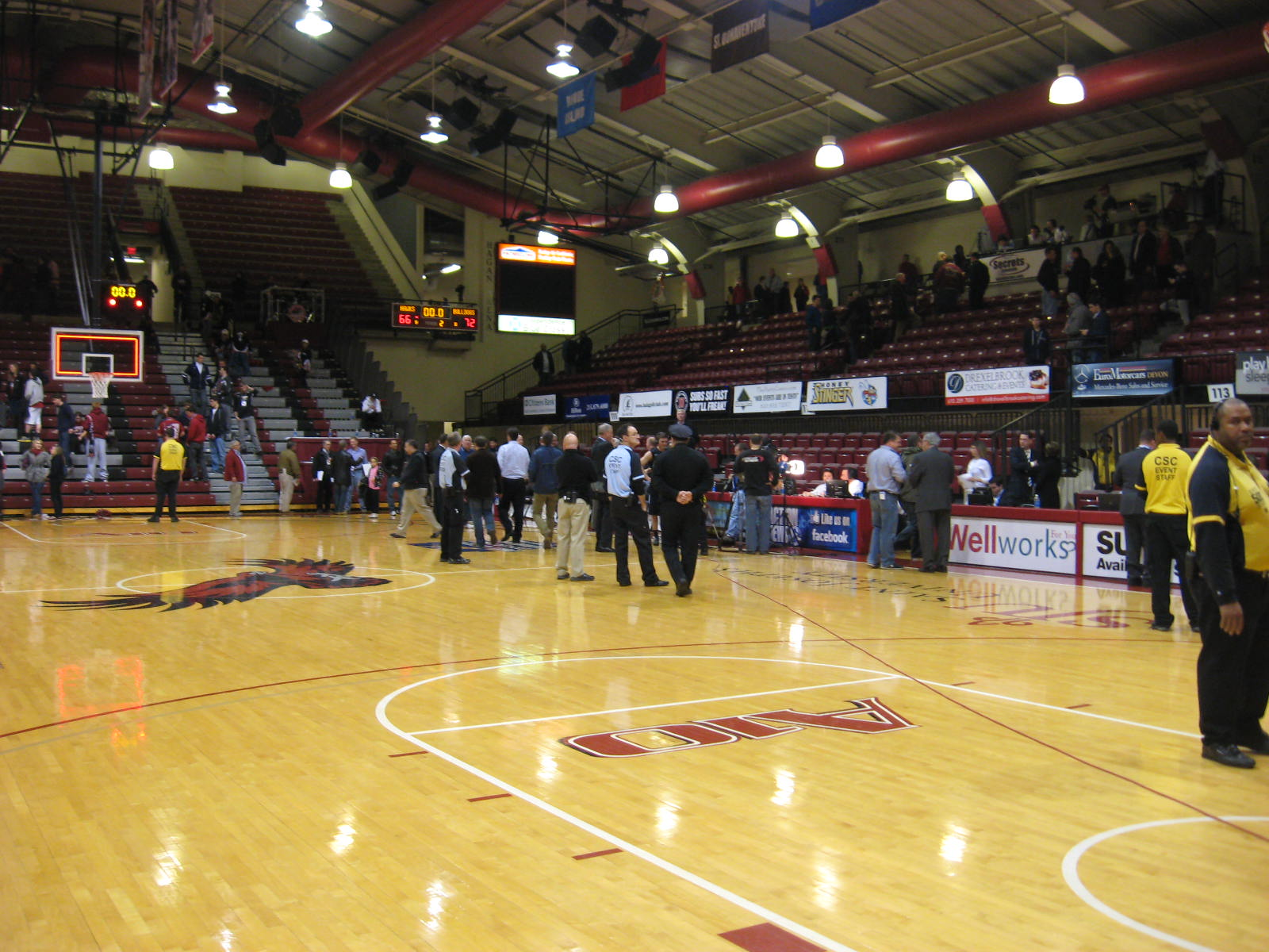 Hagan Arena, during a St. Joseph's Butler game, 2013